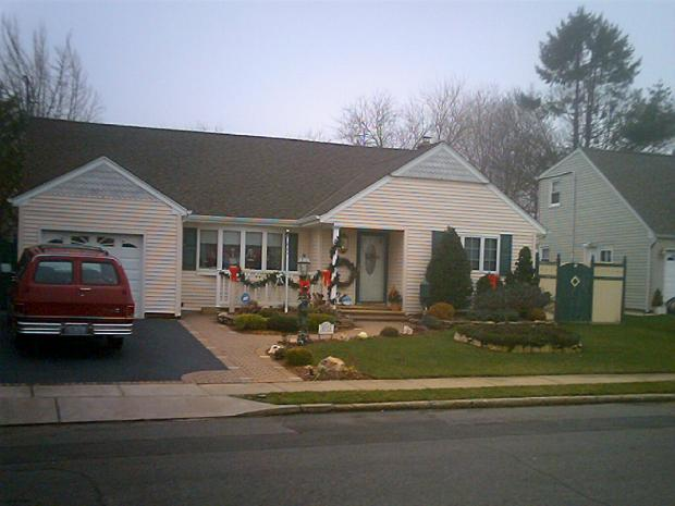 housing Levittown style